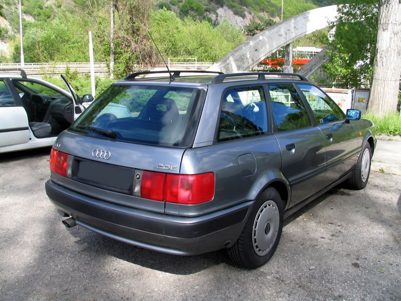 Audi B4 Avant SW 1993 - back view (c) self made - release all rights